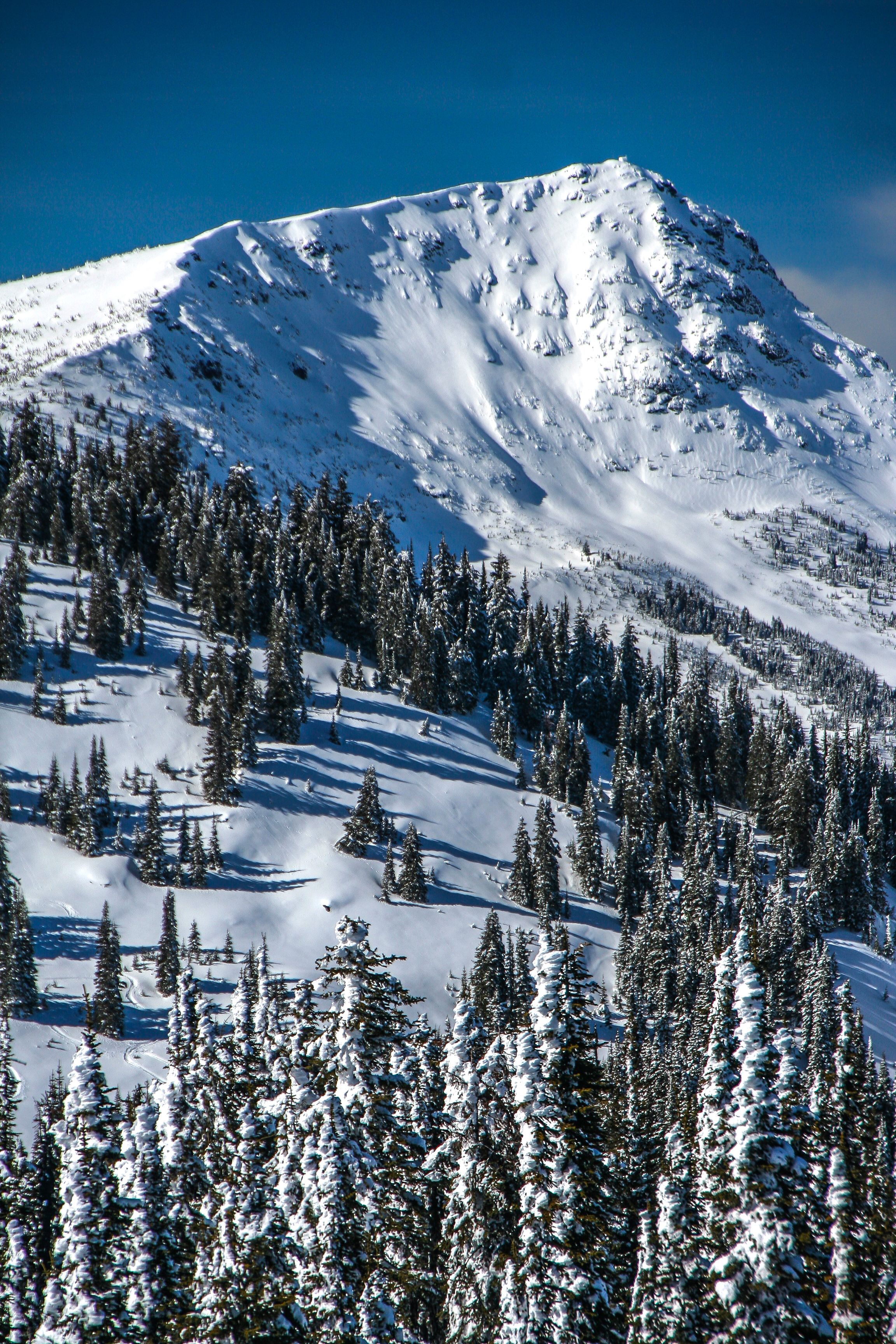 a short visit to Rossland BC, and the Red Mountain Ski Resort...Old Glory Mtn (2376m)...